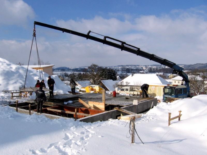 Truck-mounted crane lifting pre-manufactured concrete slab